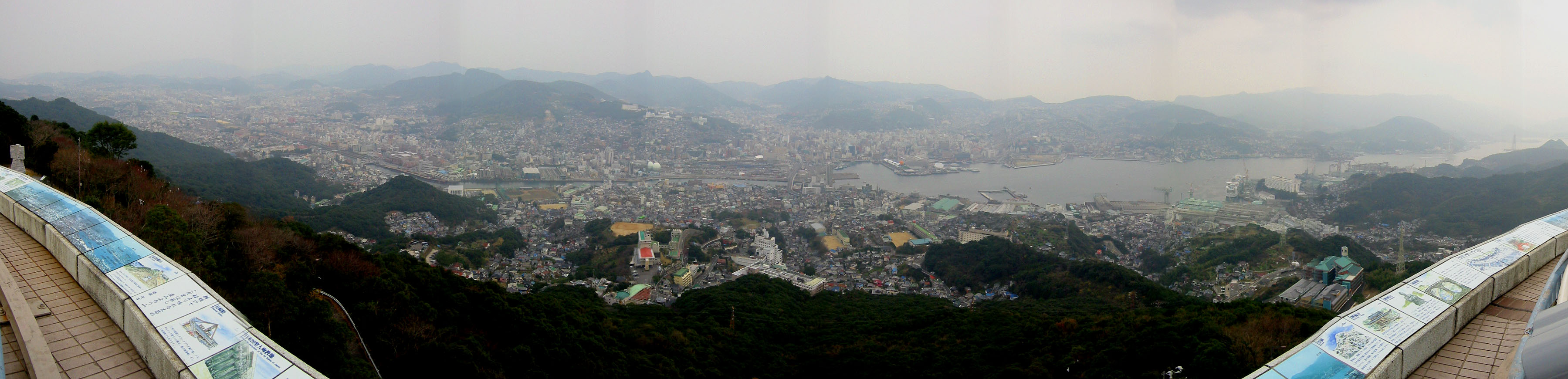 Panorama of Nagasaki